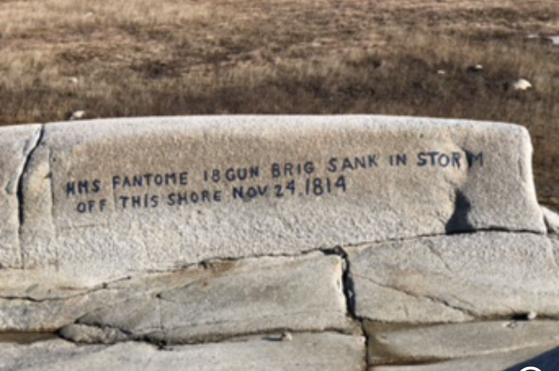 Prospect Road Hike, marking location of sinking of HMS Fantome (1810)